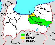 Location Map of Nakaniikawa District in Toyama Prefecture, Japan